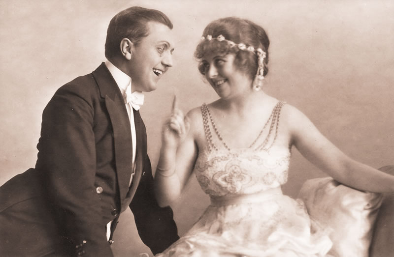 Christian Schröder as Baron Boni Káncsiánu in "Csárdásfurstinnan" (Die Csárdásfürstin).